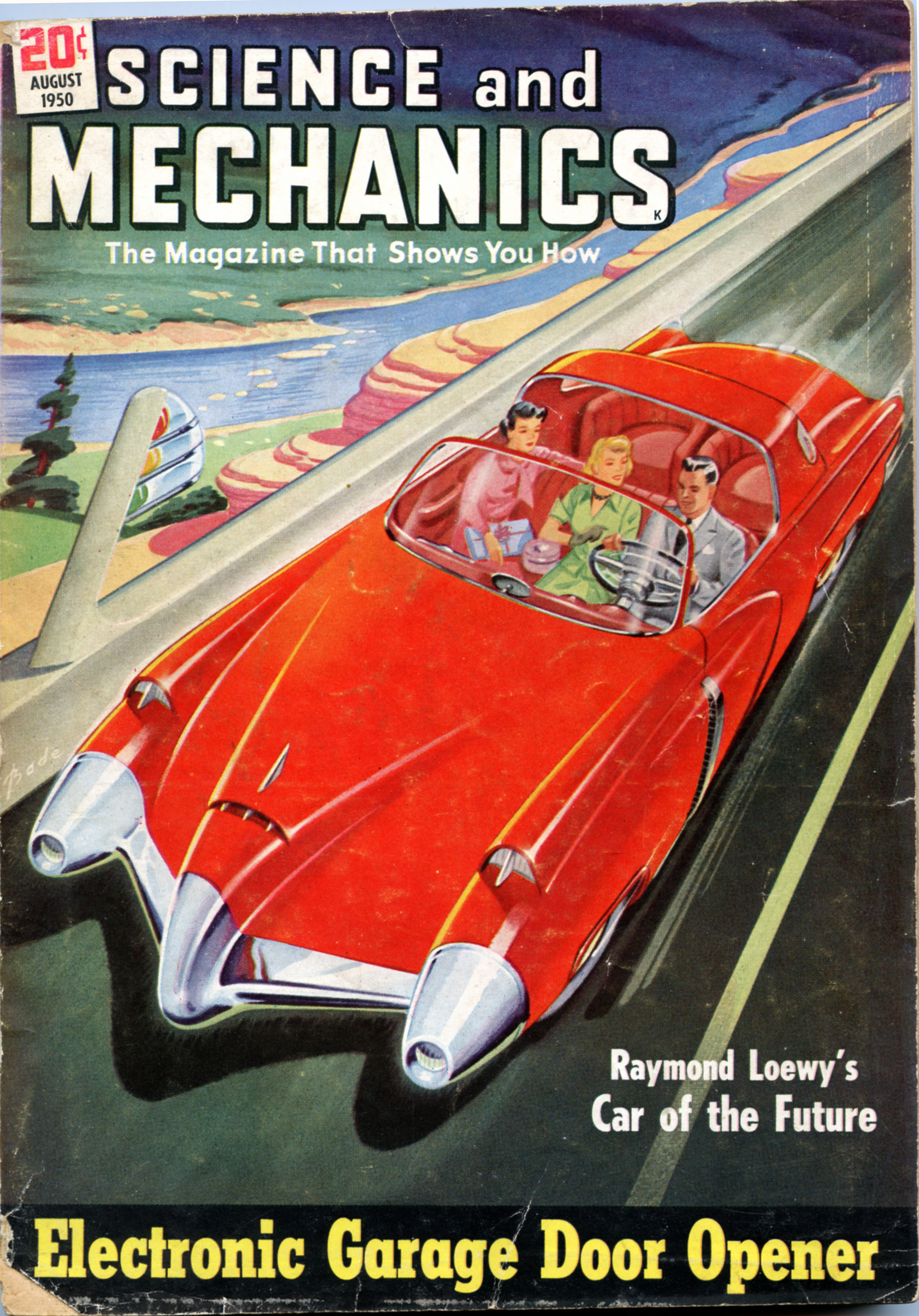 "Car of the Future" as conceived by Studebaker's Director of Styling, Raymond Loewy, in the August 1950 issue of Science and Mechanics. Loewy wrote about the new styling for "tomorrow's rocket age population" but dismissed the idea of clear plastic tops and turbine engines. The three point front end was a design feature on the 1951 Studebaker. Some of the other elements of this concept model influenced the 1953 Studebaker Commander Starliner. The cover art was done by Arthur C. Bade, a staff illustrator for Science and Mechanics from 1944 to 1955 This is 300 dpi JPG that shows the cover condition before the image was restored. It was scanned with an Epson Perfection V500 scanner and saved as a 400 dpi TIFF file. The restoration was done in Adobe Photoshop Elements. The magazine size is 6.5 by 9.25 inches (165 by 235 mm) and has 224 pages.